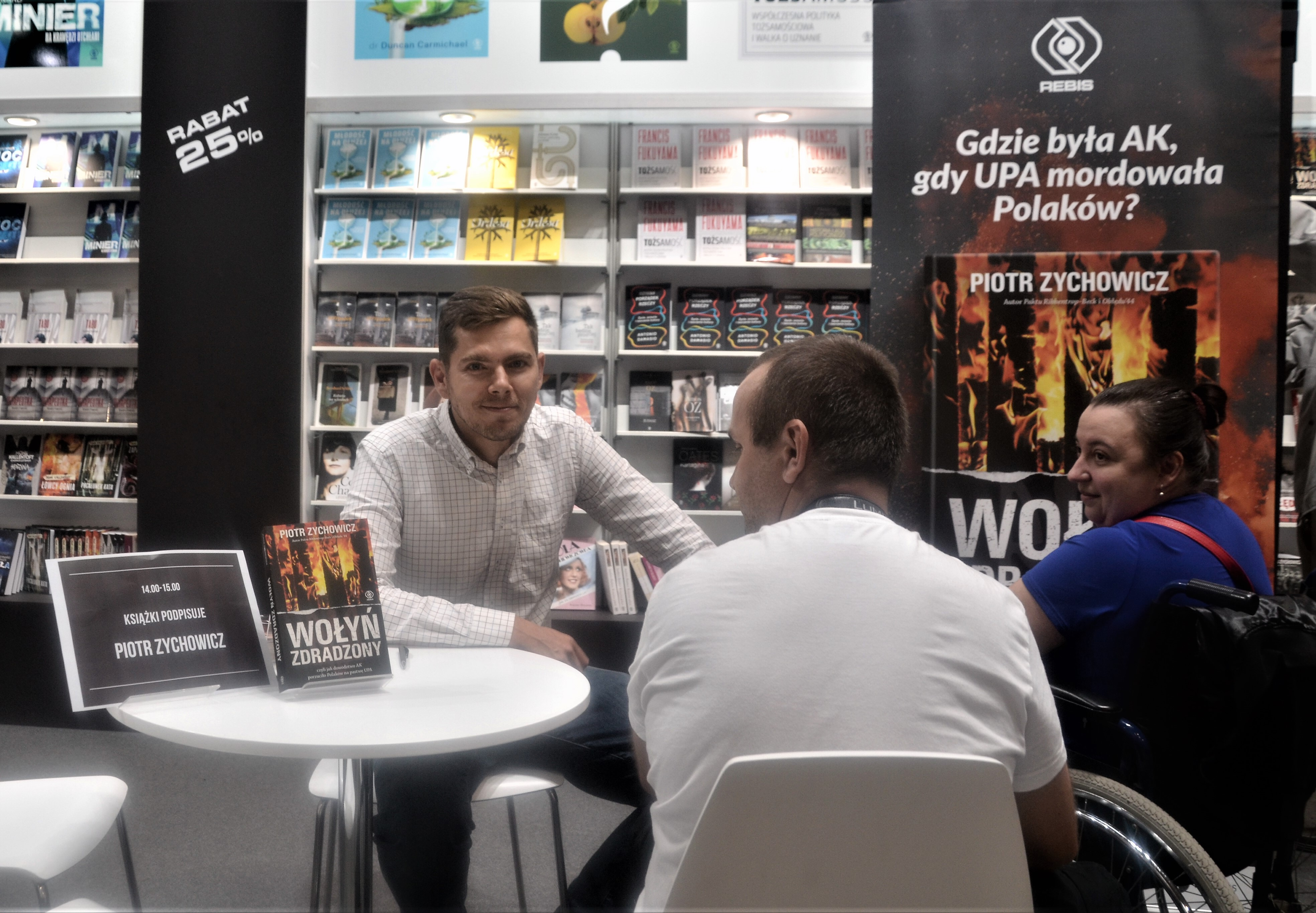 23. Buchmesse in Krakau